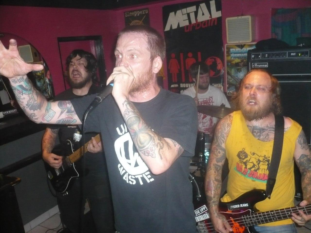 Nitad Swedish punk band live in France 2012, their last european tour